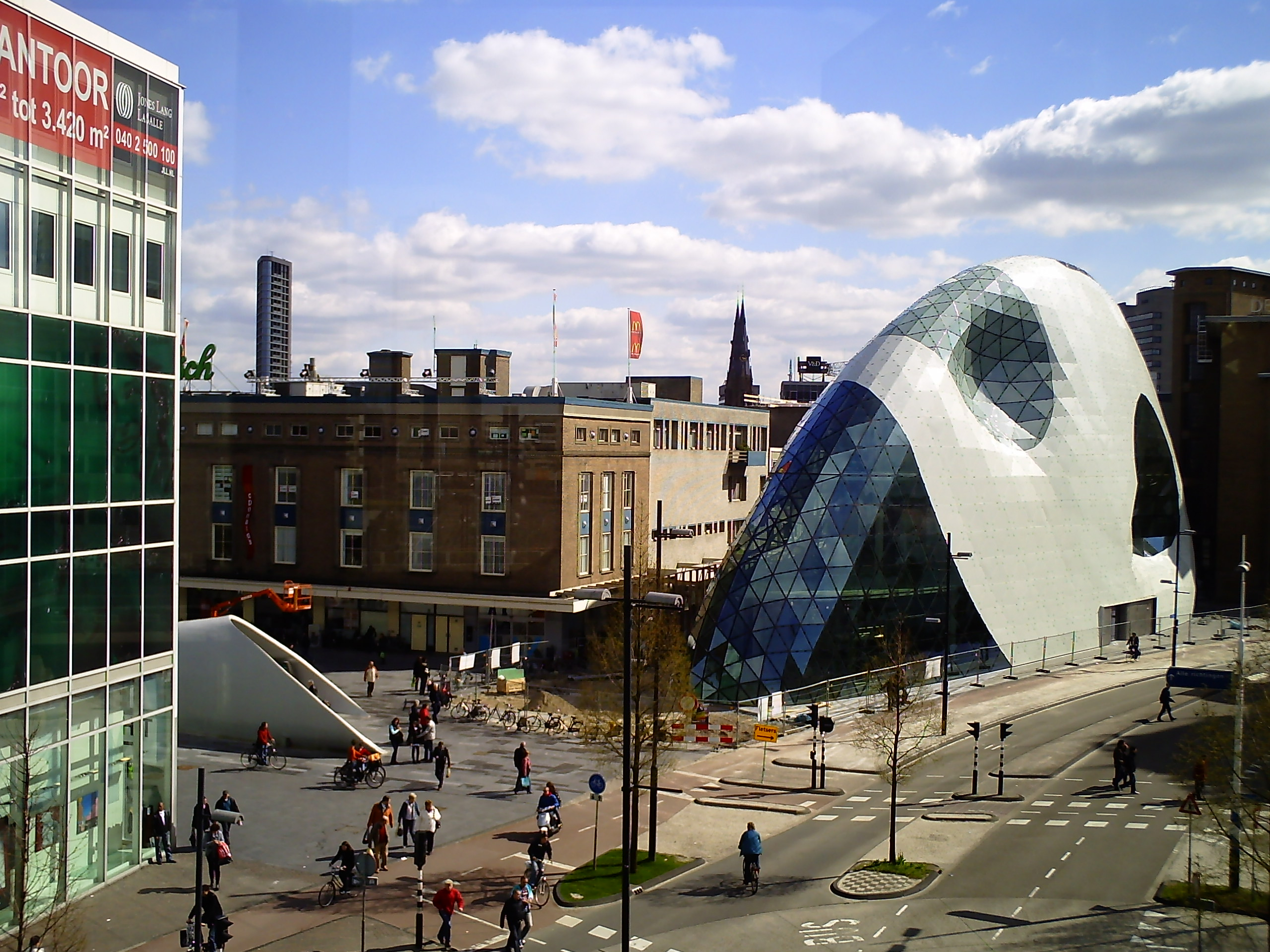 View of the city centre of Eindhoven as taken from the footbridge over Emmasingel. The following landmarks can be seen: the Piazza shopping mall (far left); the 18 Septemberplein square with the entrance to the subterranean bicycle shelter; the Vestedatoren residential skyscraper (background left); the twin spires of the Catharinakerk (Saint Catharine's, background centre); the new office and shopping complex nicknamed "Blob" (centre) and the Admirant office and shopping complex (far right, formerly the main offices of Royal Philips Electronics). View is to the south.